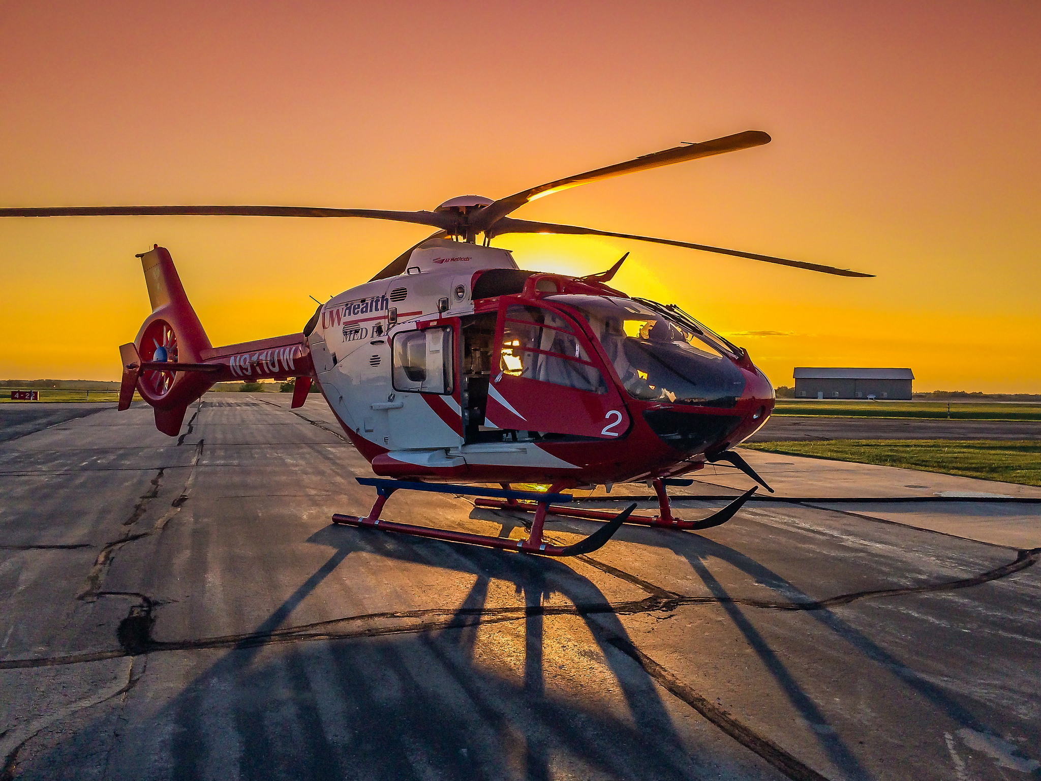 uwmed iowa c